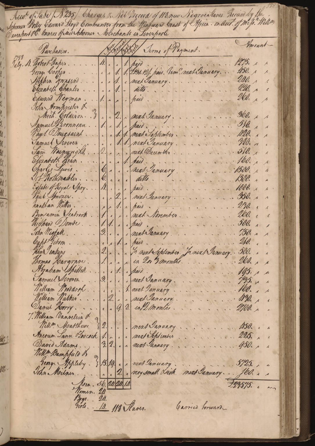 "Charges and net proceed of 118 new Negroe slaves," bookkeeping entry from ledger of the firm of Austin & Laurens, Charleston, South Carolina, recording purchases and sales, and including accounts relating to sale of slaves by the firm. Courtesy of the Beinecke Rare Book & Manuscript Library, Yale University.[1]